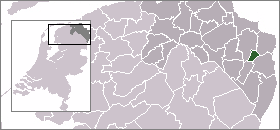 Locator map of Dutch municipalities in Groningen (LocatieWinschoten.png)